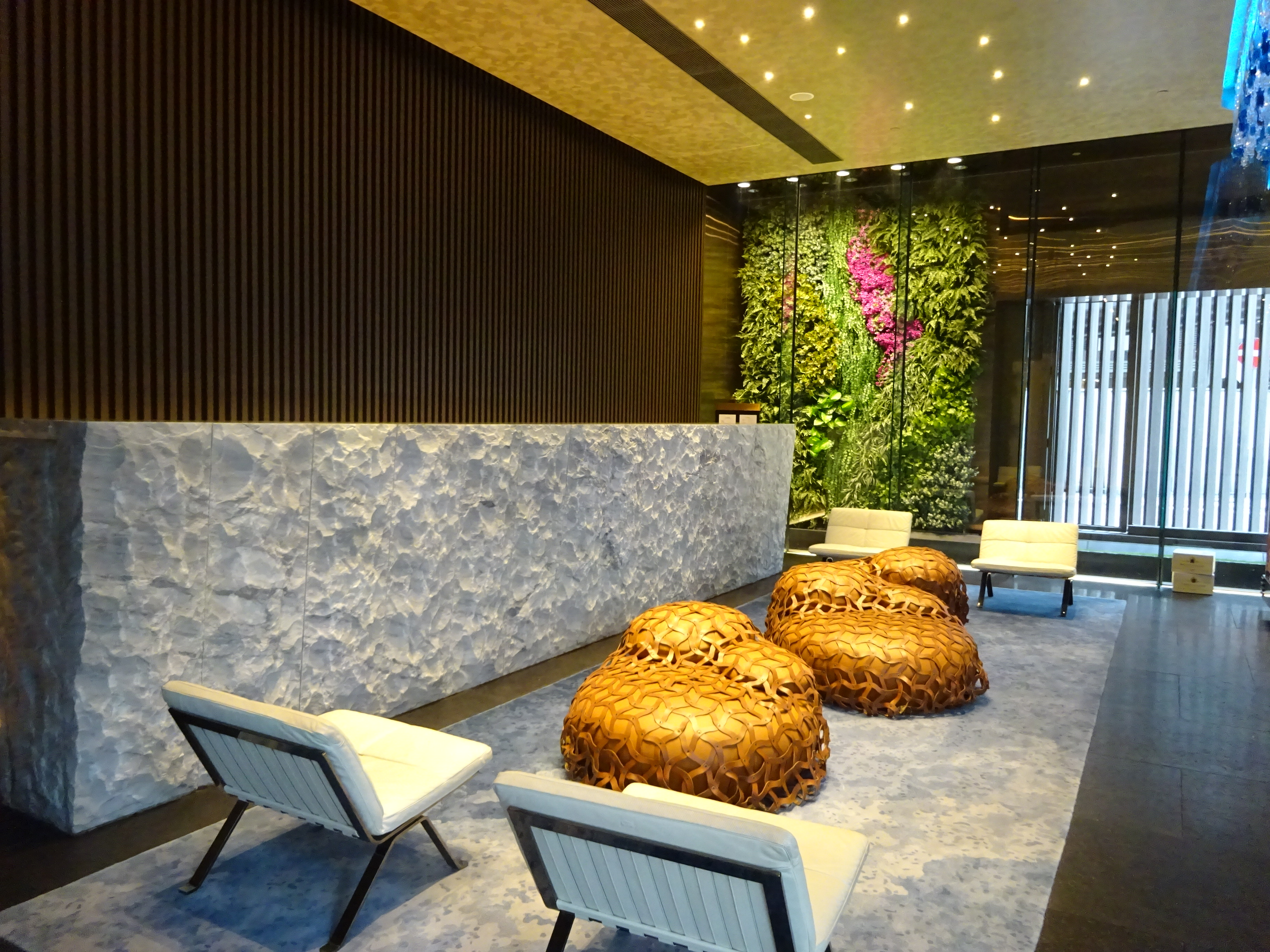 Visit of The Gloucester 尚匯, Gloucester Road, Wan Chai, Hong Kong